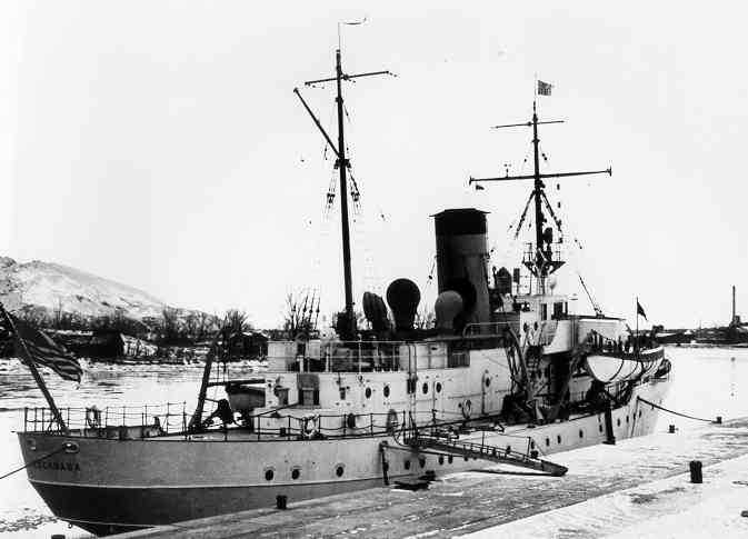 The USS Escanaba, CG, (WPG-77) tied up to her dock in Grand Haven, Michigan, some time before the US entered World War II.